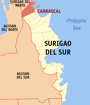 Map of the Surigao del Sur showing the location of Carrascal